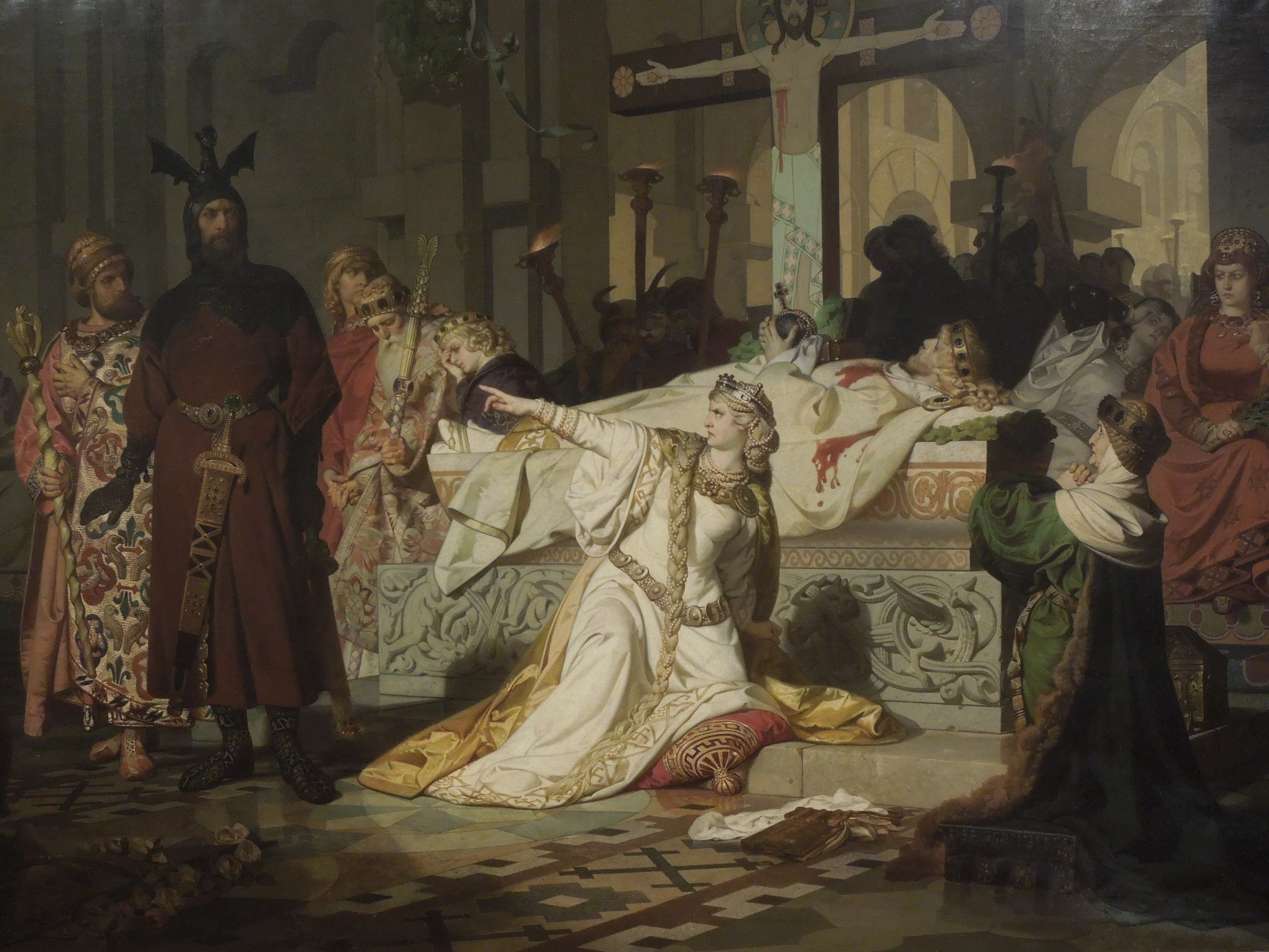 Emil Lauffer - Kriemhild's Complaint (1879)